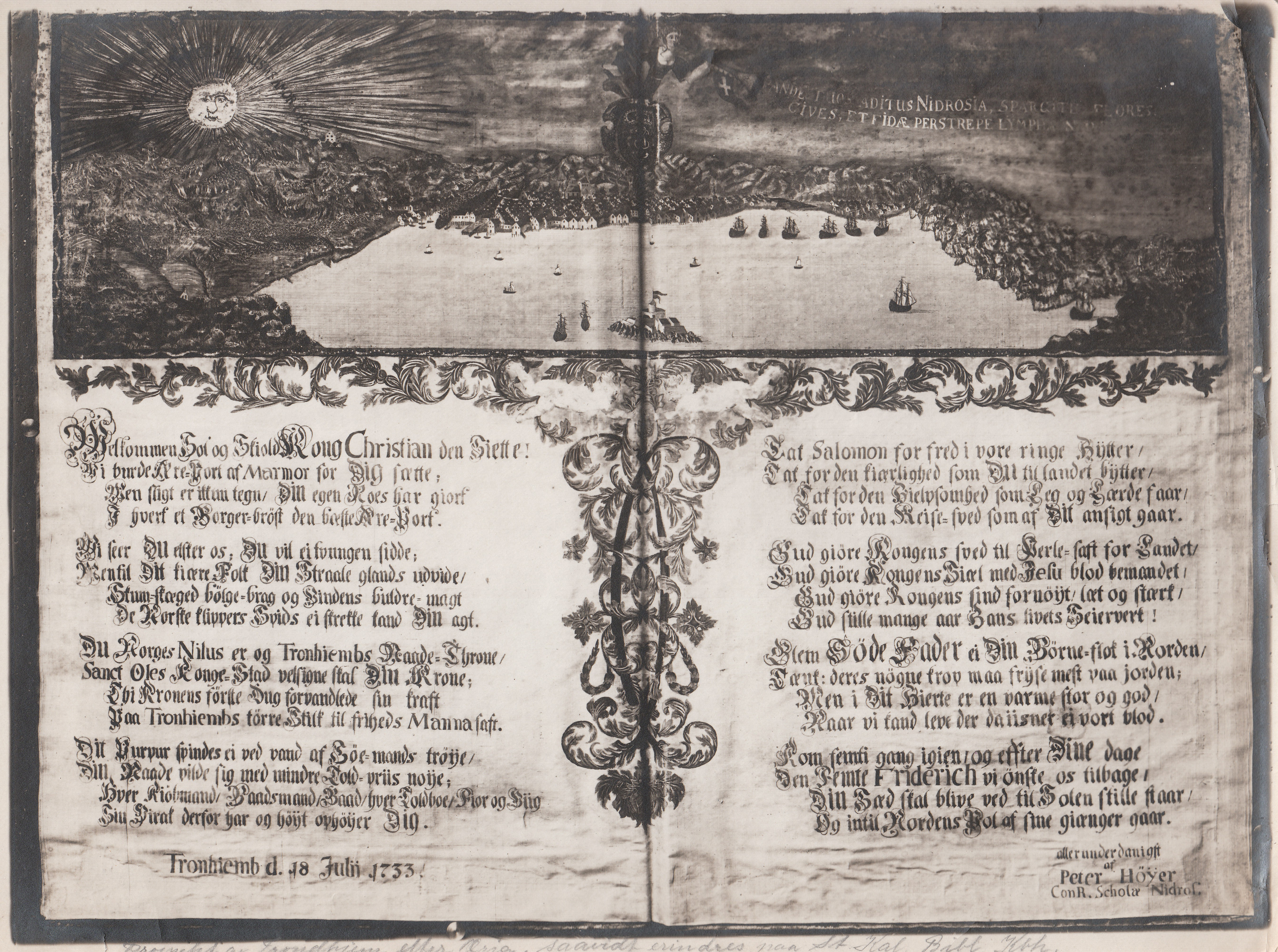 From Christian VI's journey to Norway in 1733. Engraving of Trondheim and a poem/speech by Peter Höyer held in honor of Christian VI when he visited the city.